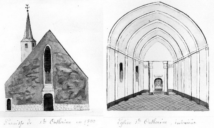 Maastricht, the Netherlands. Drawing of the former Catharinakapel in Boschstraat, the chapel that had served for 2 and a half century as parish church of Saint Matthew's parish, who ahd lost their church to the Protestants.19th-century drawing (reconstruction?) by Philippus van Gulpen.